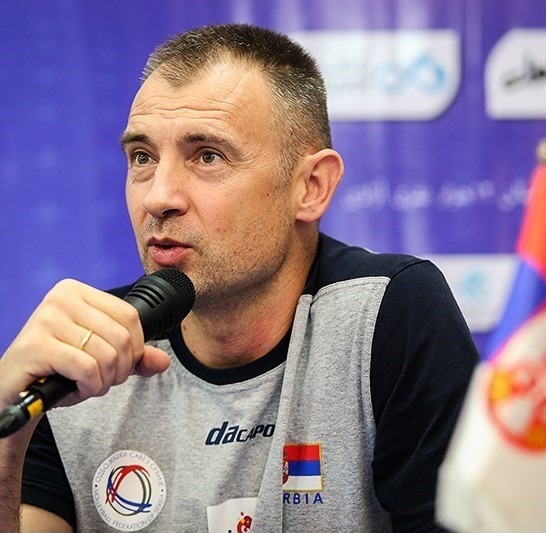 Nikola Grbić in a press conference in Tehran